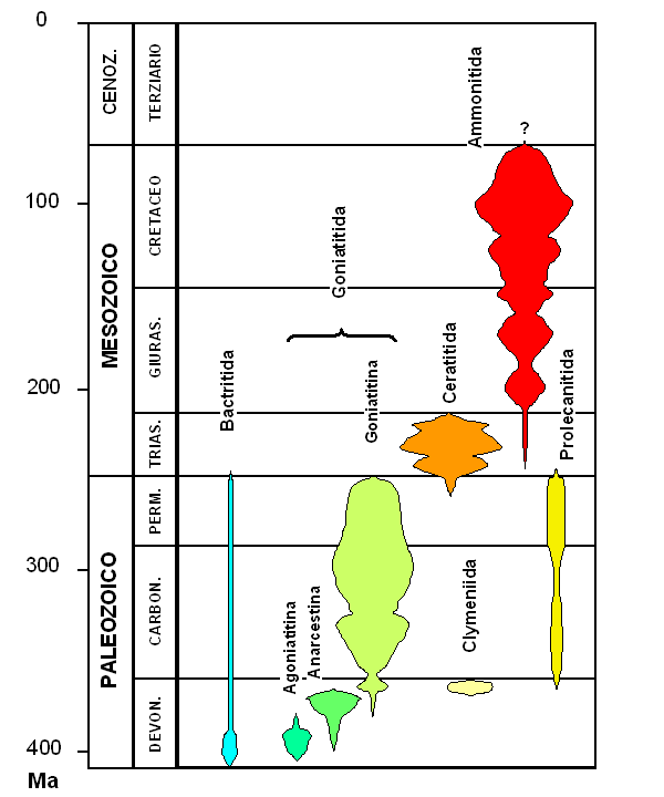 Scheme of the stratigraphical distribution of Ammonoidea (ammonites lato sensu). Synthesis from various Authors.